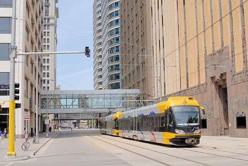 Light rail train in downtown Minneapolis, Minnesota (USA).